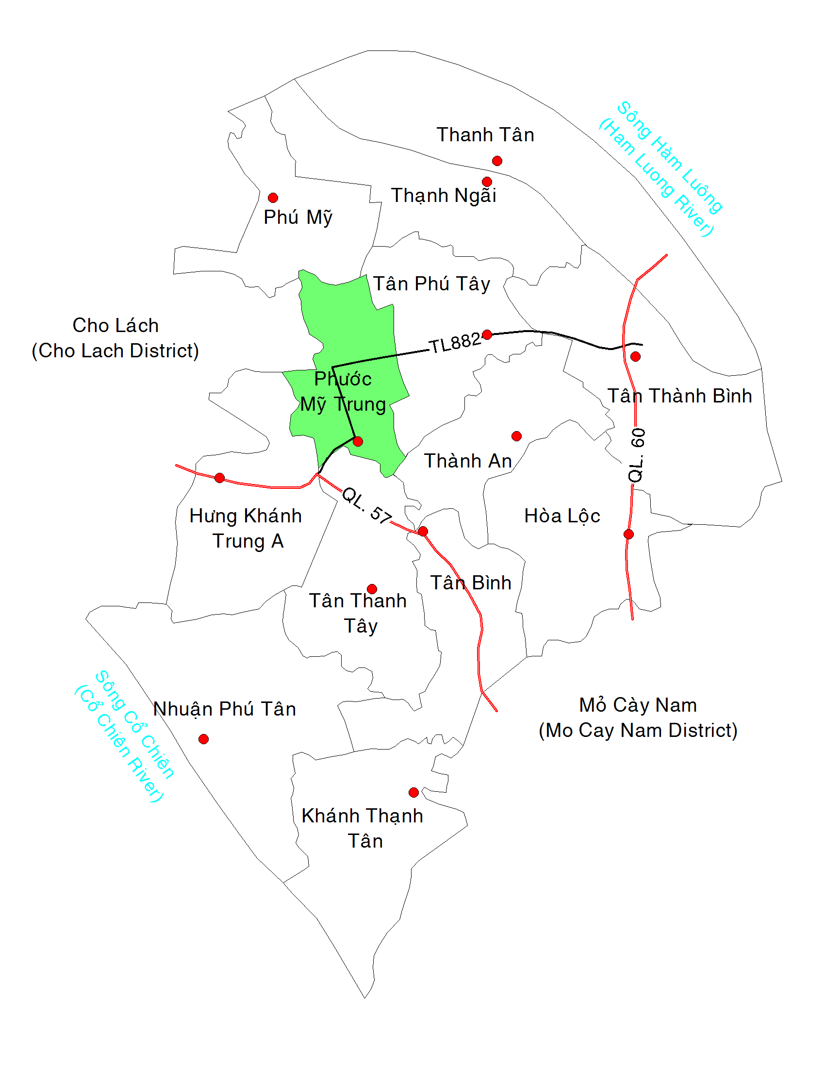 Locaiton map of Phước Mỹ Trung commune, Mo Cay Bac District, Ben Tre province, Vietnam